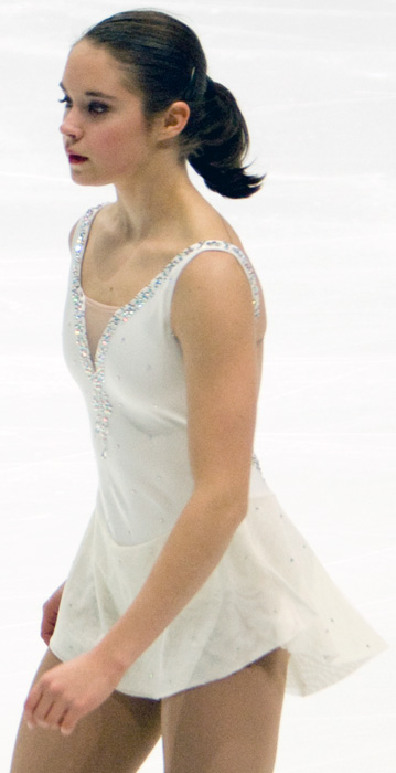 2010 Cup of Russia, free skating.